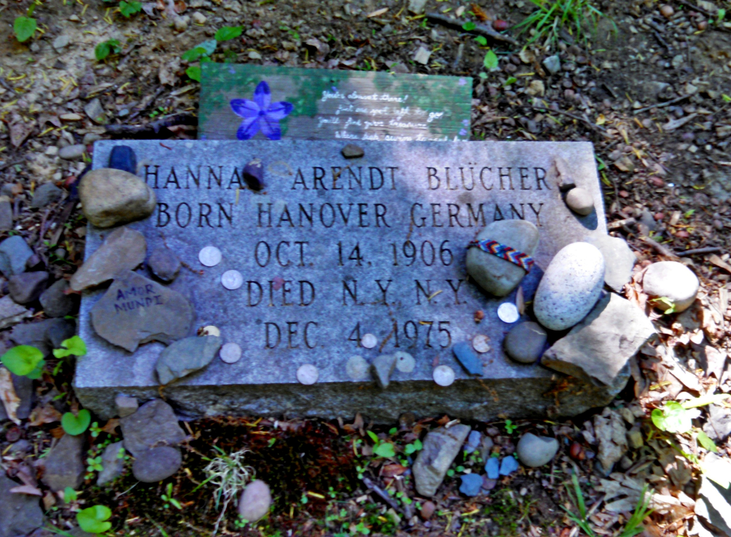 Grave of author and political theorist Hannah Arendt at Bard College Cemetery in Annandale-on-Hudson, New York.